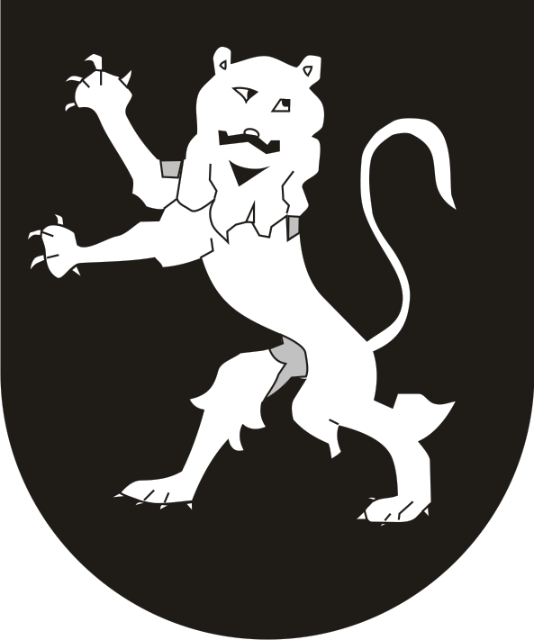 coats of arms of the Rhinegraviat of Stein